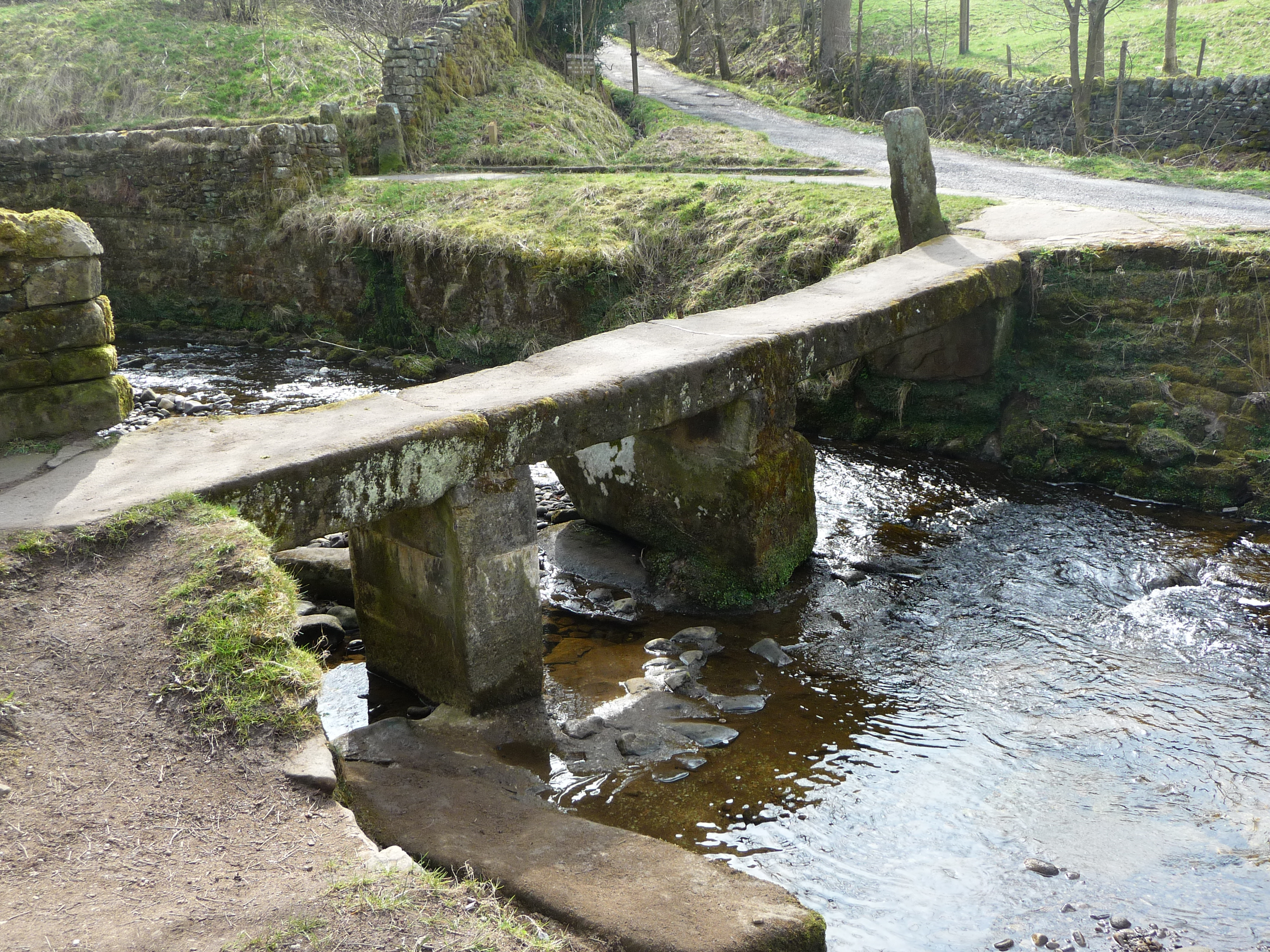 Wycoller, UK